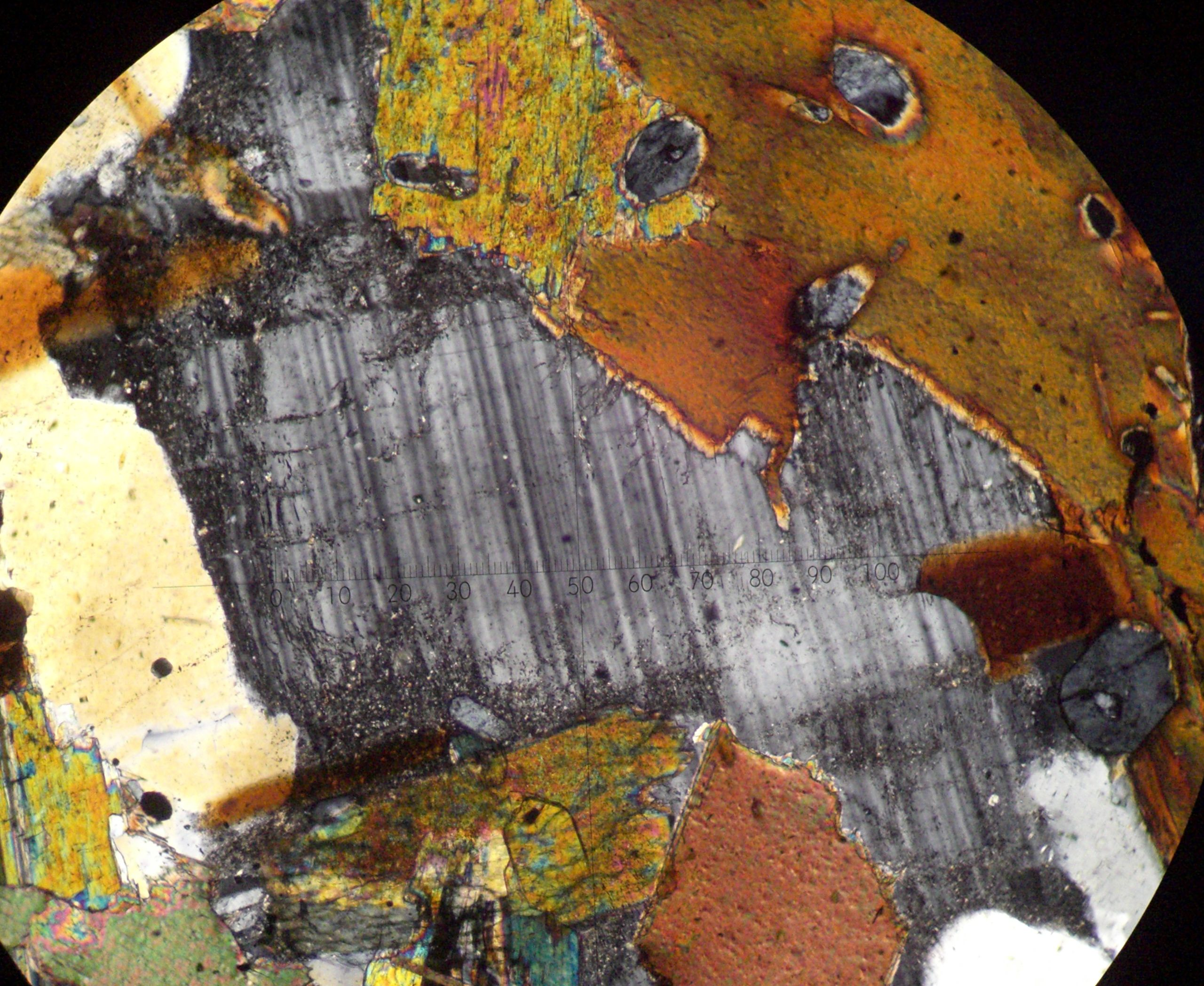 On area is grain of Plagioclase. On the top is big grain of biotite and in the button are some Amphibole. Observed by 2 nikols. (Zoom in 100times, 1 millimetre corresponding to 100 units on the scale)